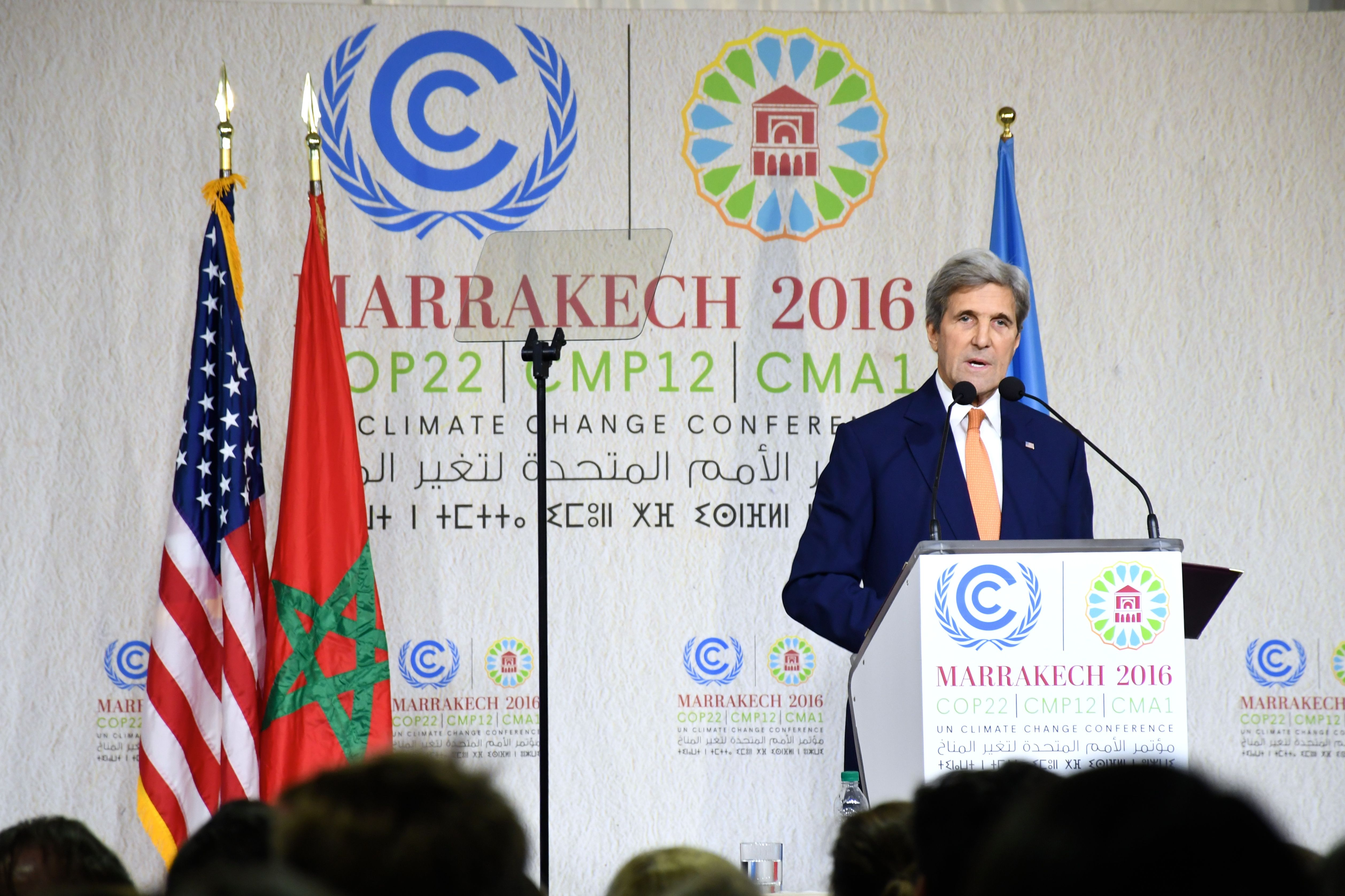 U.S. Secretary of State John Kerry delivers remarks at the 22nd UN Framework Convention on Climate Change Conference of Parties (COP22) in Marrakech, Morocco, on November 16, 2016. [State Department photo/ Public Domain]